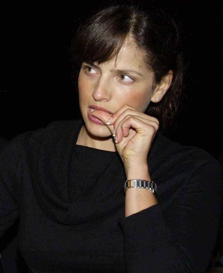 Visit of f.m Silvan Shalom in Los Angeles. in the photo, f.m Silvan Shalom talking with Israeli film actress Noa Tishbi.